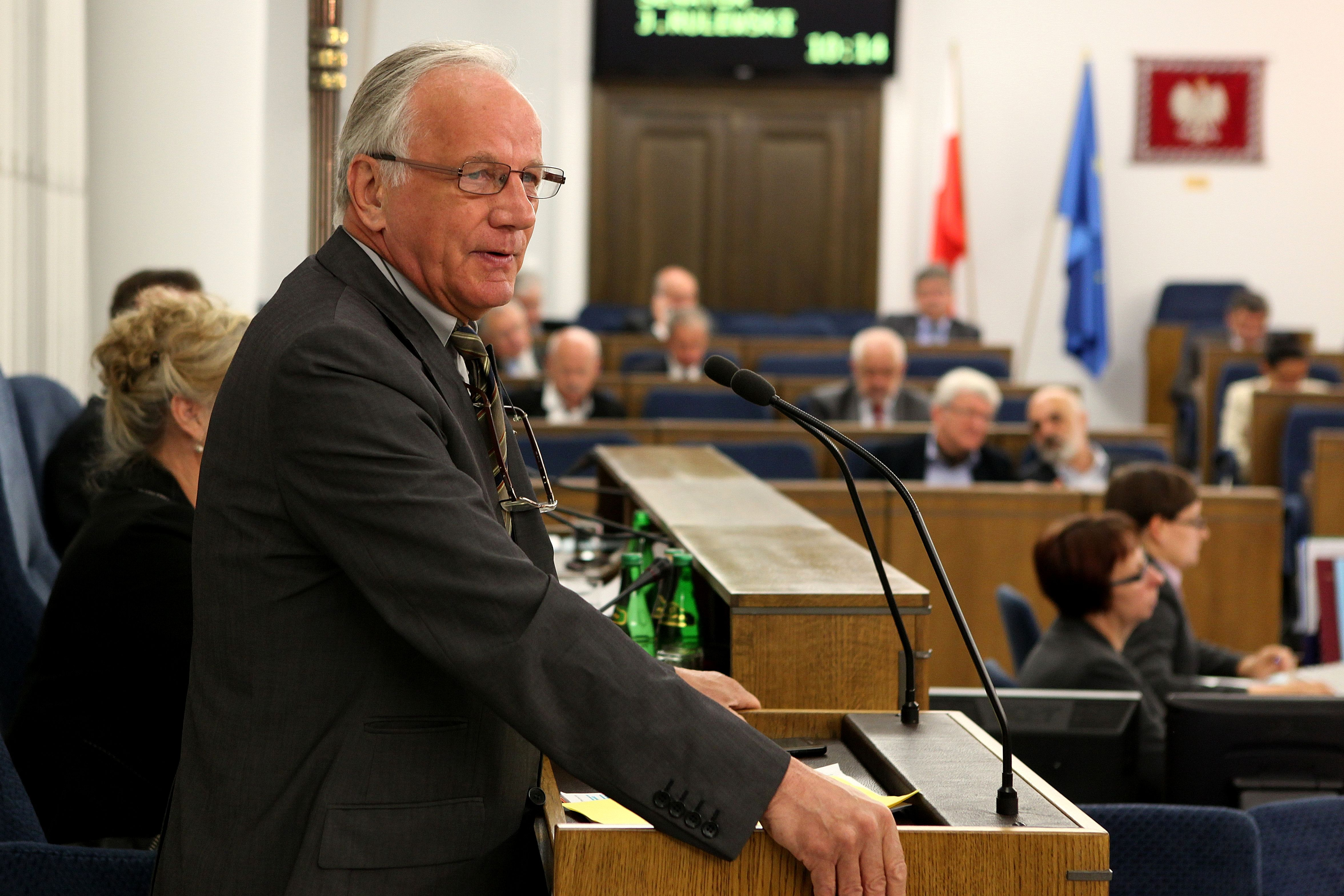 Senator Jan Rulewski, 13th sitting of the Polish Senate